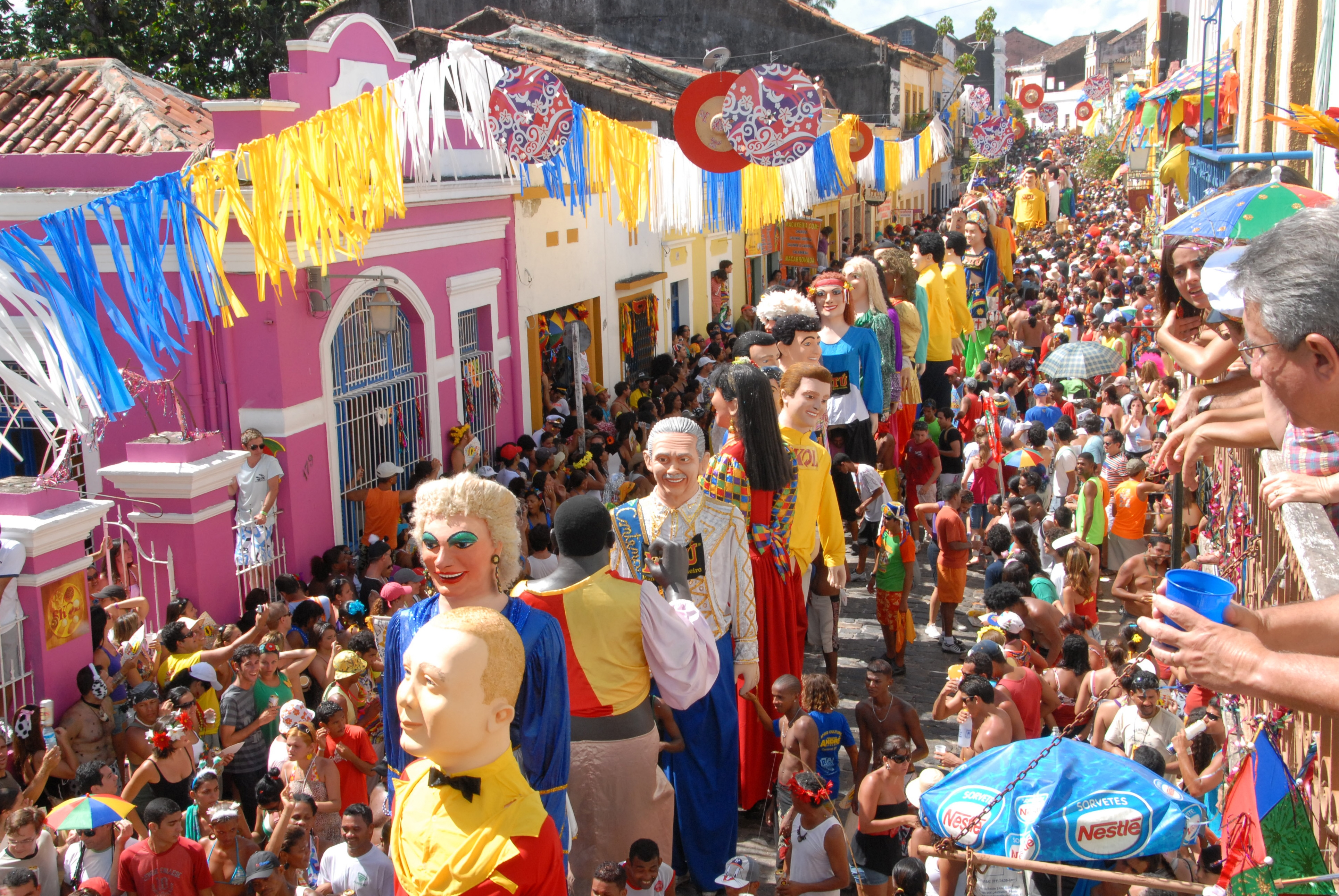 Olinda Carnival - Olinda, Pernambuco, Brazil